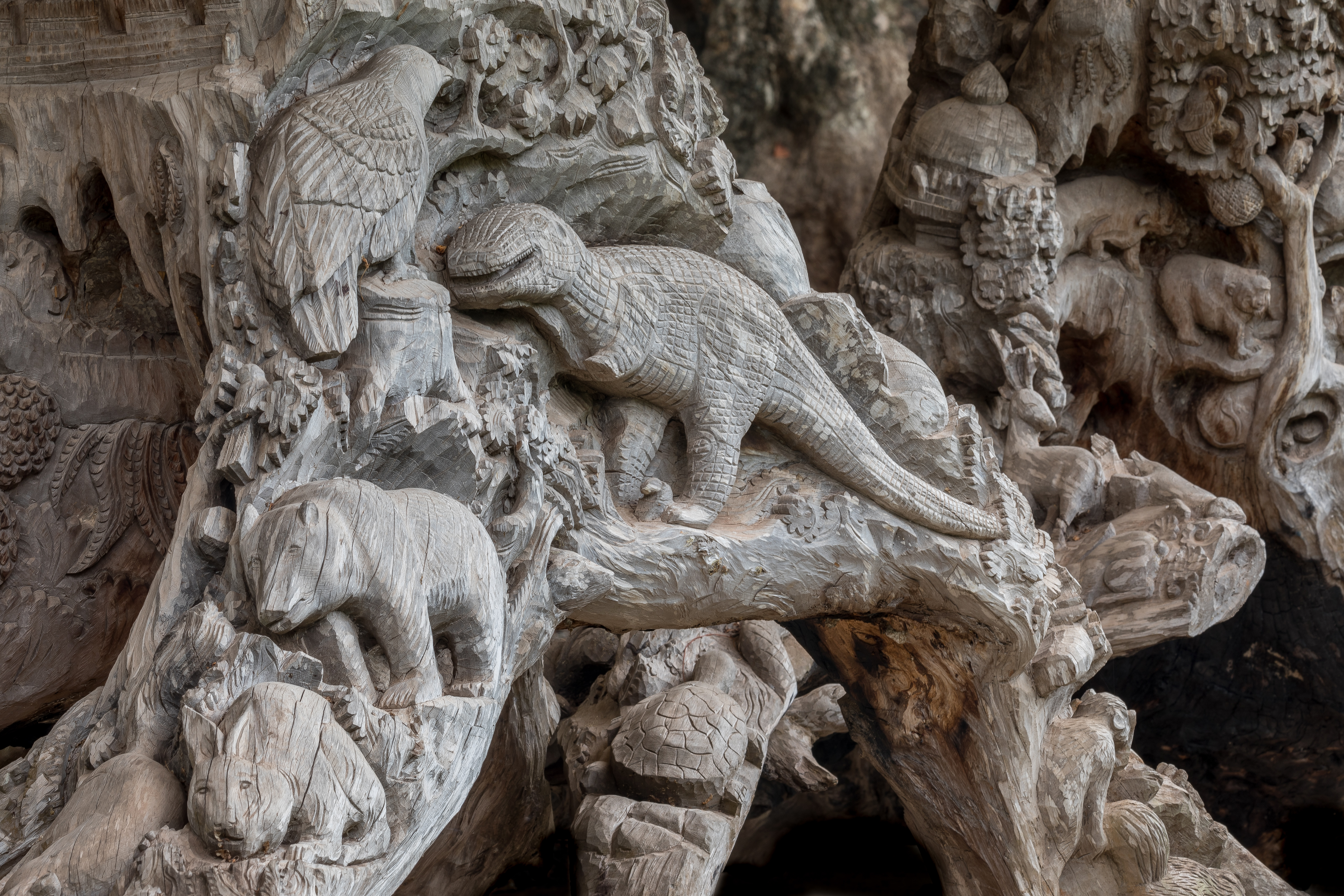 Carved tree with reliefs of dinosaur, bird, bear, rabbit and turtle, as seen in the garden of the Buddhist temple of Haw Phra Kaew in Vientiane, Laos